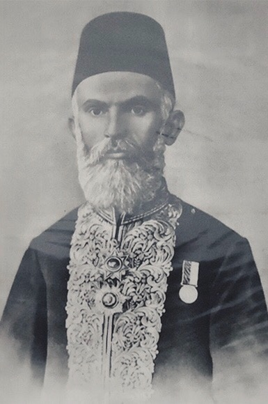 Sami Frashëri portrait